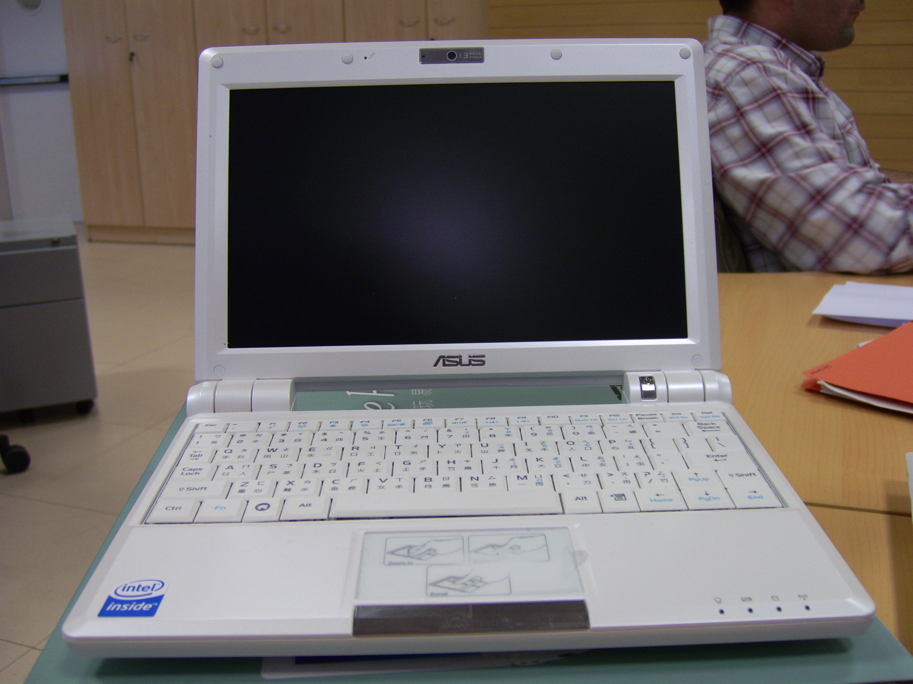 ASUS Eee PC 900 chinese keyboard, without battery